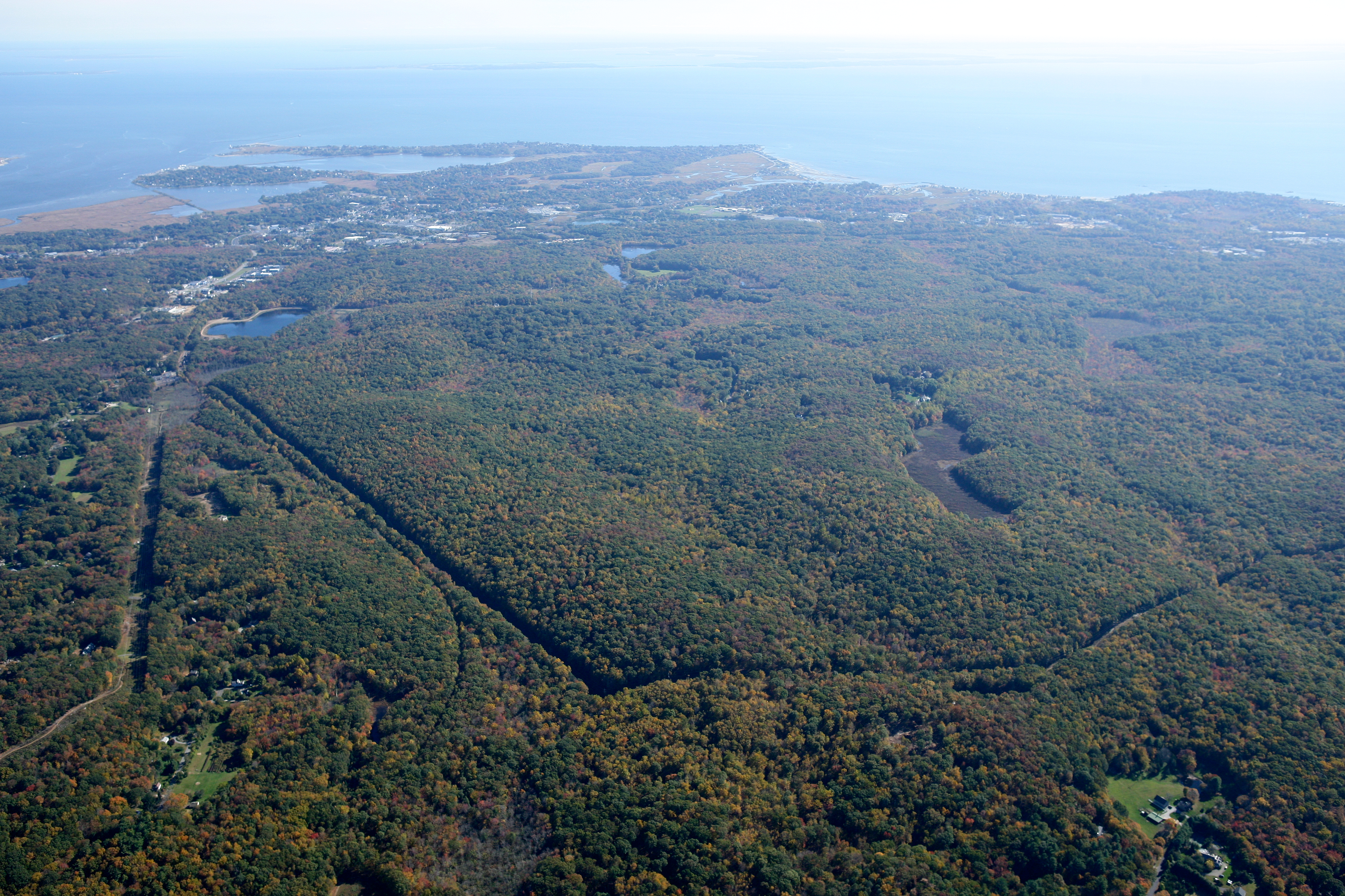 Friday, April 25, 2014 -- Governor Dannel P. Malloy announced today a plan for the state to play a major role in purchasing and protecting as open space a 1,000-acre parcel along Long Island Sound known as The Preserve, which is located in the towns of Old Saybrook, Essex and Westbrook.